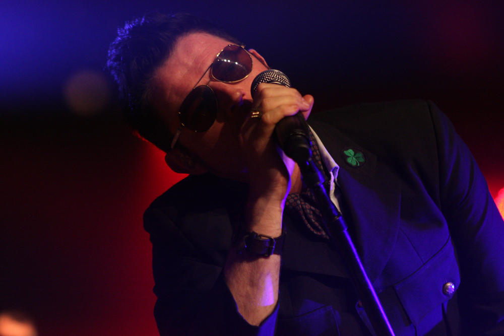 INXS performs at Campbelltown RSL Club, Sydney